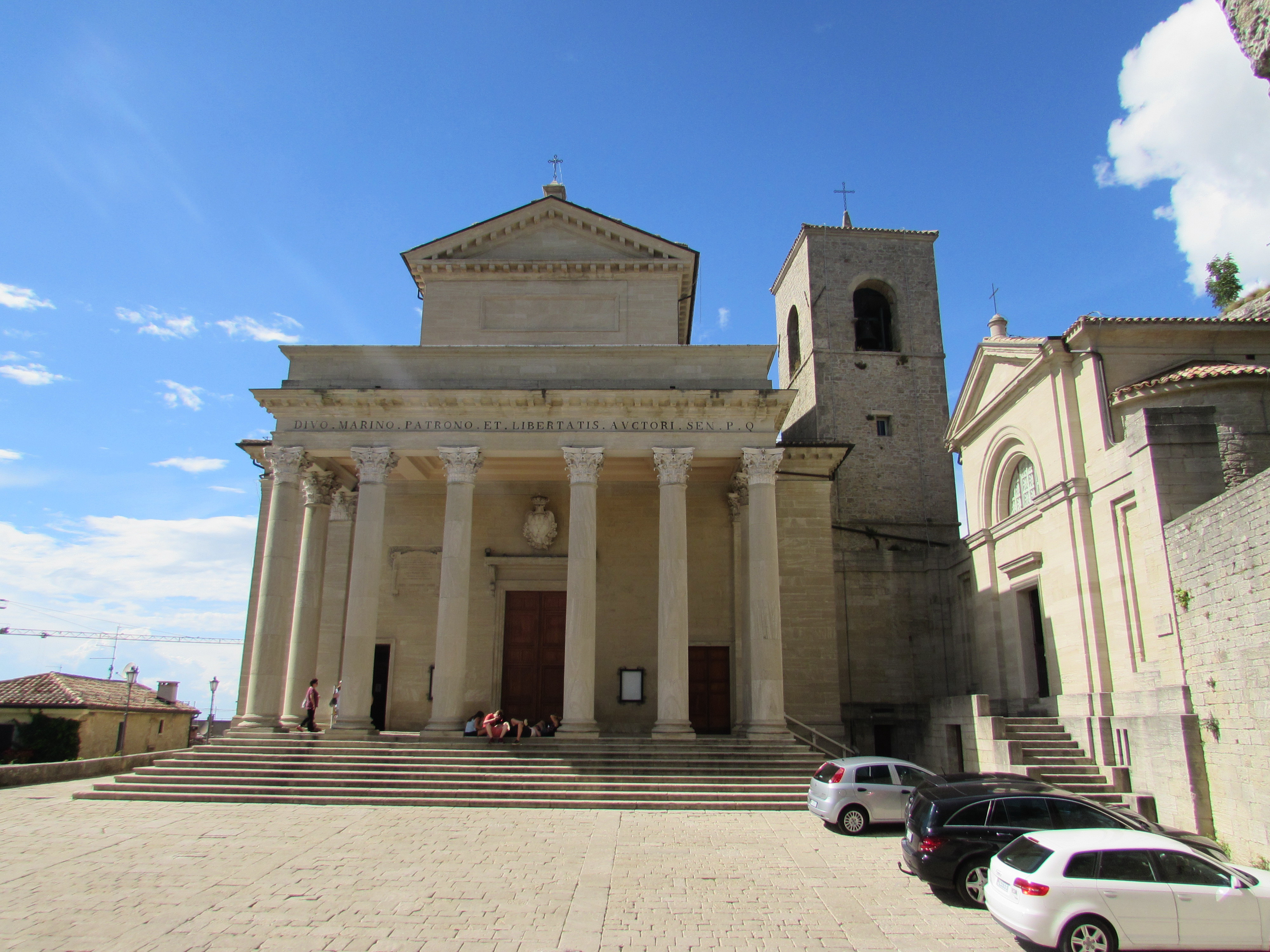 San Marino cathedral